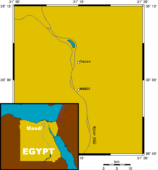 Maadi's location, small-scale map to show location relative to Cairo, and large-scale inset. This map's source is here, with the uploader's modifications, and the GMT homepage says that the tools are released under the GNU General Public License, and it may be considered PD.